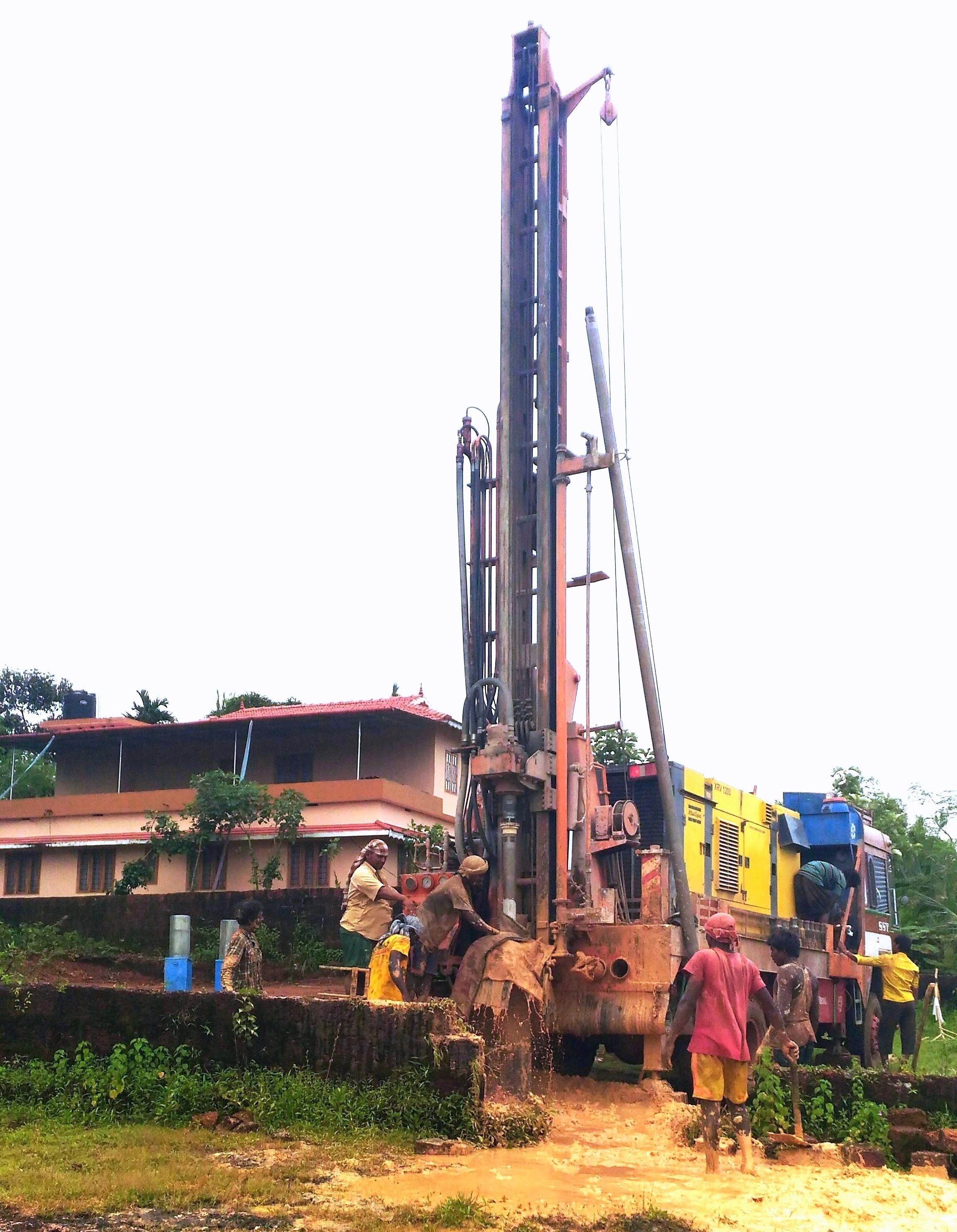 Borewell digging A borehole is a narrow shaft bored in the ground, either vertically or horizontally. A borehole may be constructed for many different purposes, including the extraction of water, other liquids (such as petroleum) or gases (such as natural gas), as part of a geotechnical investigation, environmental site assessment, mineral exploration, temperature measurement, as a pilot hole for installing piers or underground utilities, for geothermal installations, or for underground storage of unwanted substances, e.g. in carbon capture and storage.